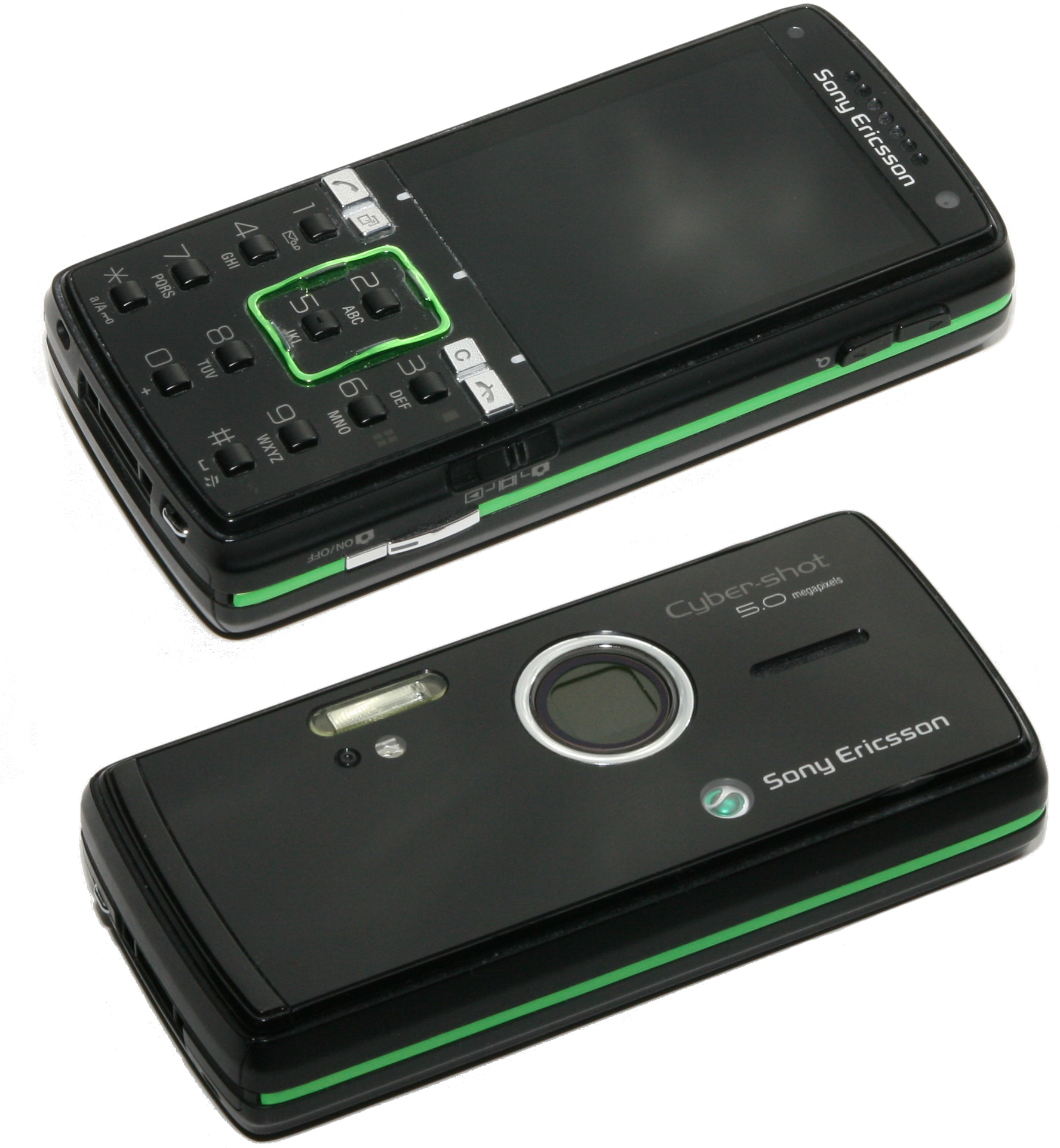 Front and back views of the Sony Ericsson K850 mobile phone in the color named Luminous Green.